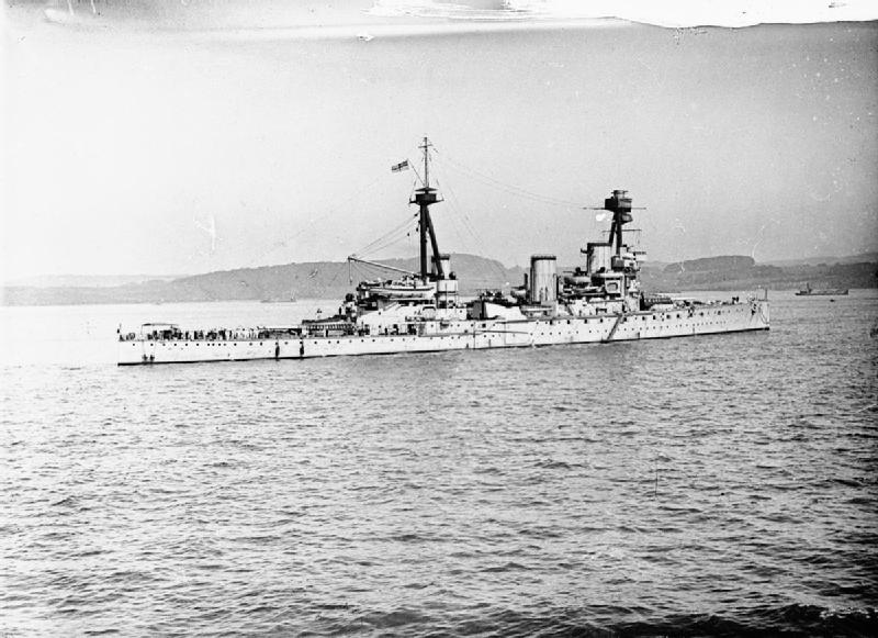 Battlecruiser HMS INDOMITABLE